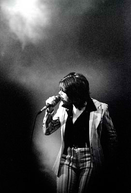 Suze DeMarchi lead singer from Baby Animals, performing live at the State Theatre, Sydney Australia.